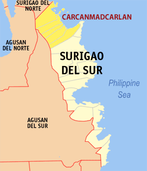 Map of Surigao del Sur showing the location of Carcanmadcarlan